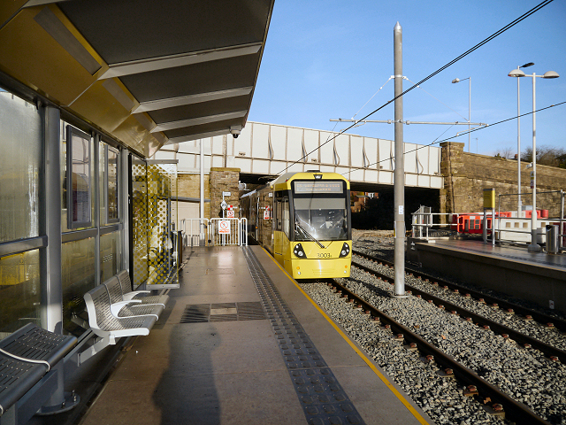 Metrolink Bombadier tram number 3003 leaves Derker Station towards Shaw on the day that the Oldham line was extended from Mumps to Shaw and Crompton. The Derker Metrolink Station replaces the former railway station on the “Oldham Loop Line”. It is to the south of the bridge at Yates Street. The former rail station entrances have been closed and new lifts and ramps have been installed.